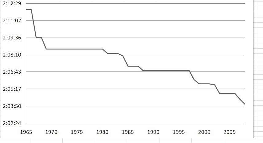 Graphic of the evolution of the men´s Marathon world record from 1965 to 2008.